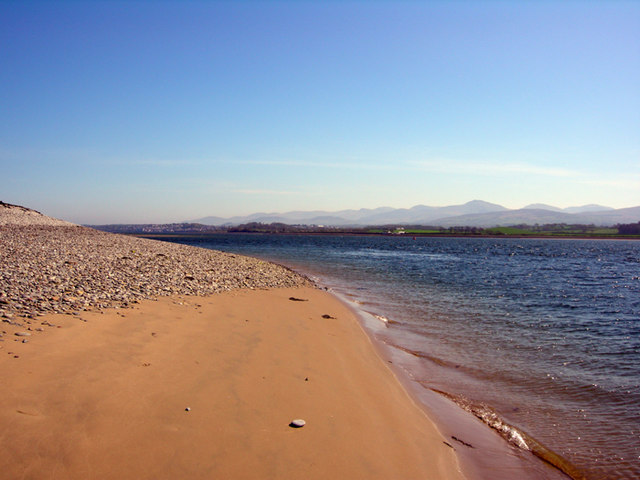 Abermenai Point Looking across Abermenai Point across the Strait towards Caernarfon